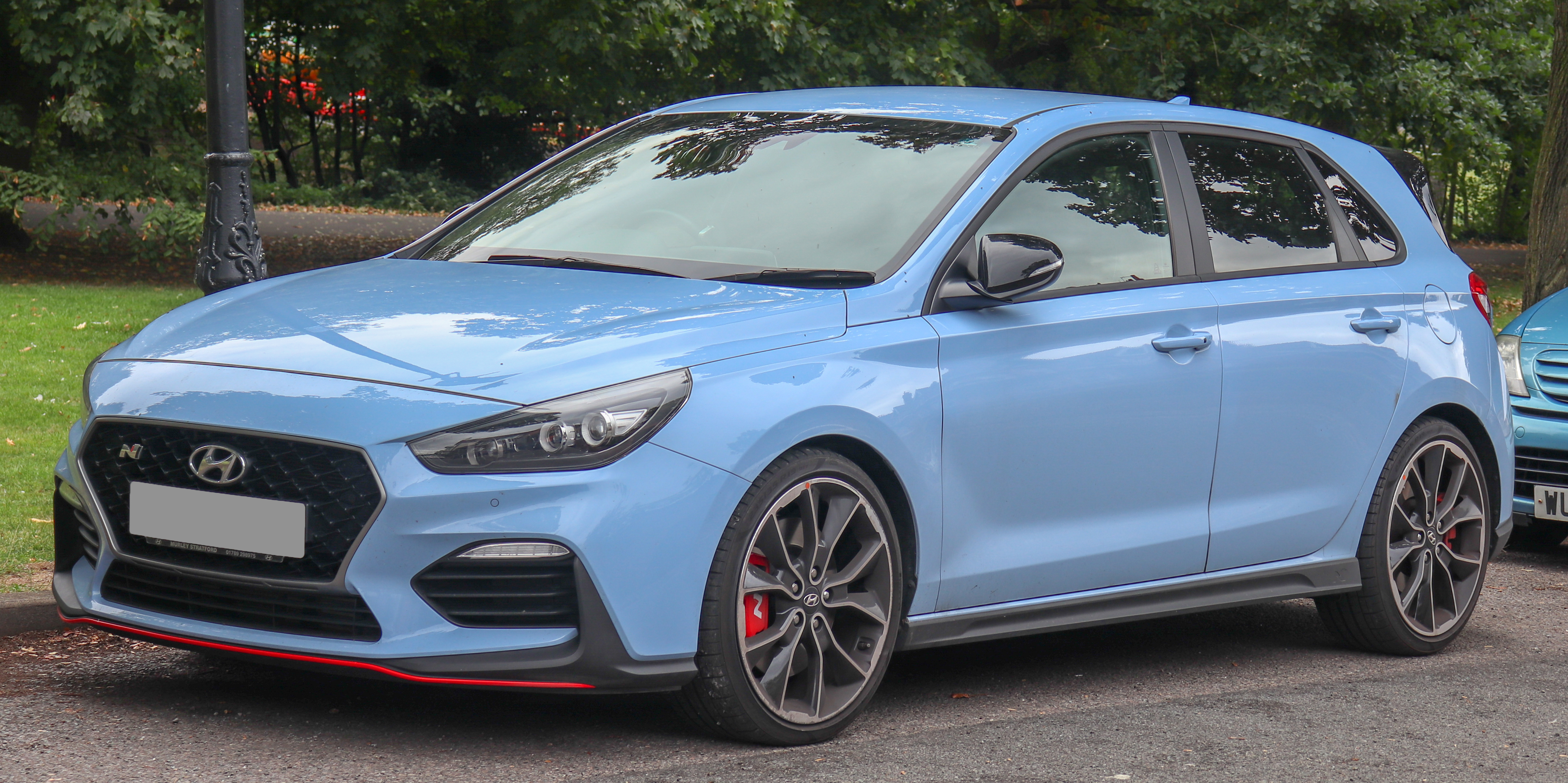 2018 Hyundai i30 N Performance T-GDi 2.0 Front Taken in Leamington Spa